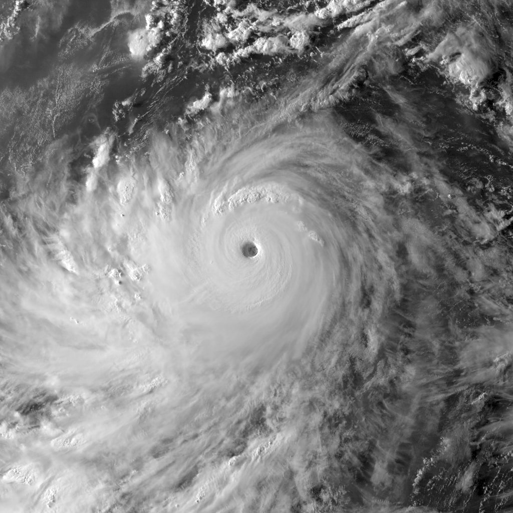 Super Typhoon Nanmadol (14W) at peak intensity on August 26, 2011